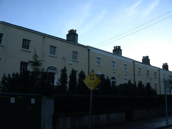 Pembroke Place, built by Reverend Craig for use as offices and houses. Two have been demolished. The houses have many similarities with Frescati